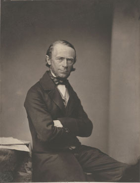 The german engraver Johann Gabriel Friedrich Poppel (1807-1882)